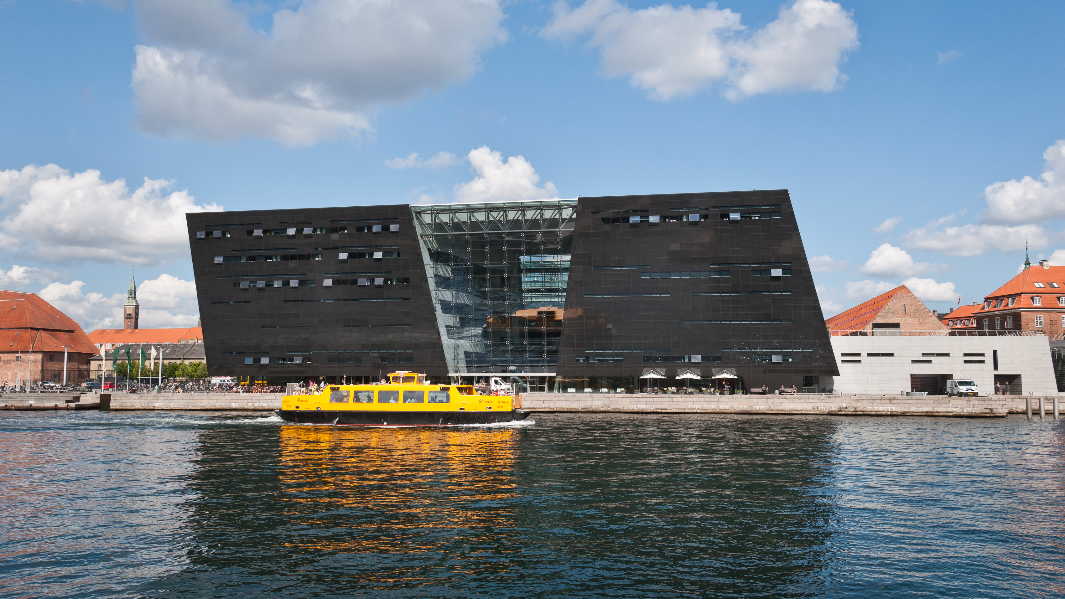 Den Sorte Diamant ("the black diamond") of the Royal Danish Library (Copenhagen Slotsholmen).